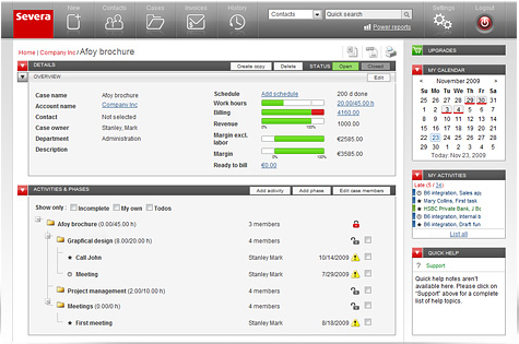 Screenshot Project management system